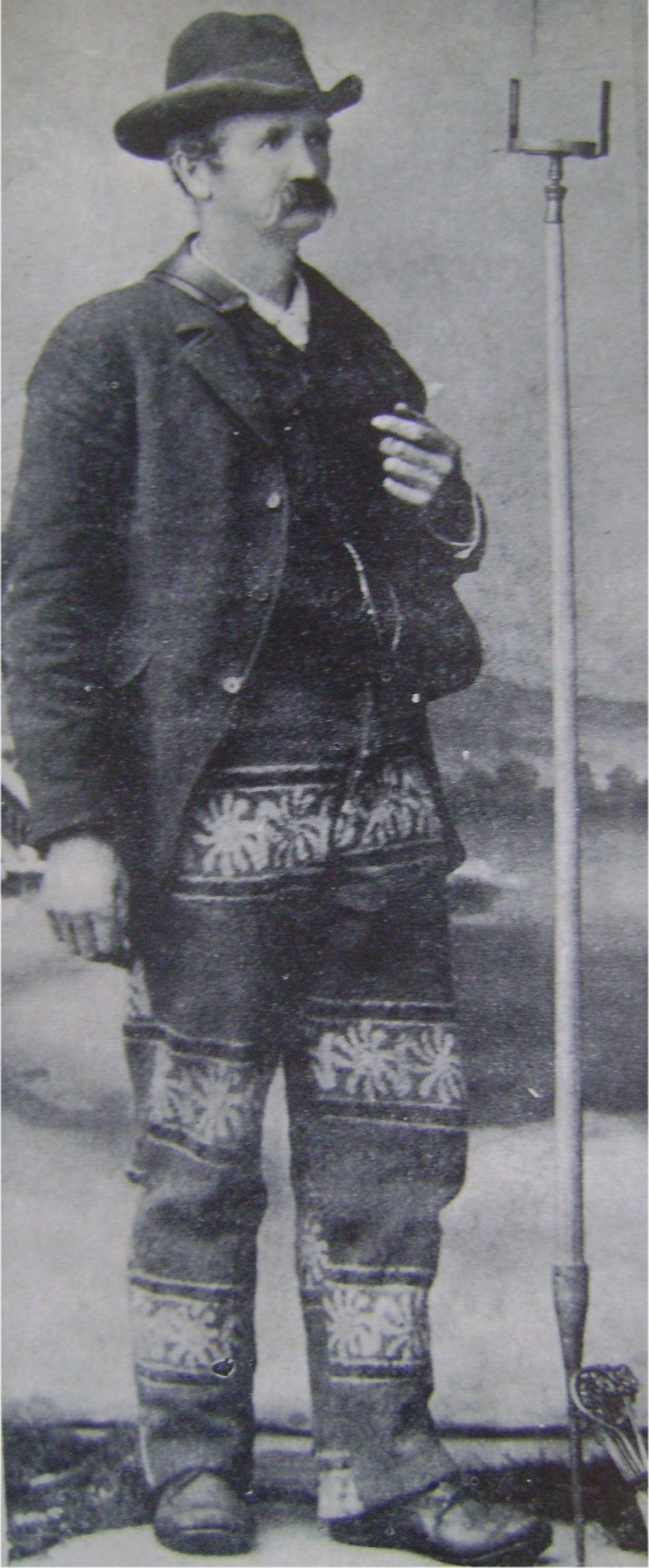 Eli P. Royce